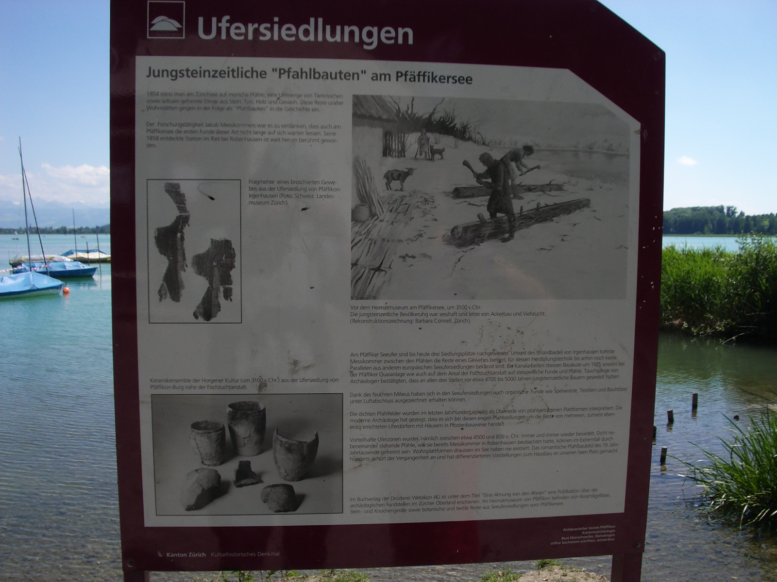 Pfäffikon ZH, Switzerland